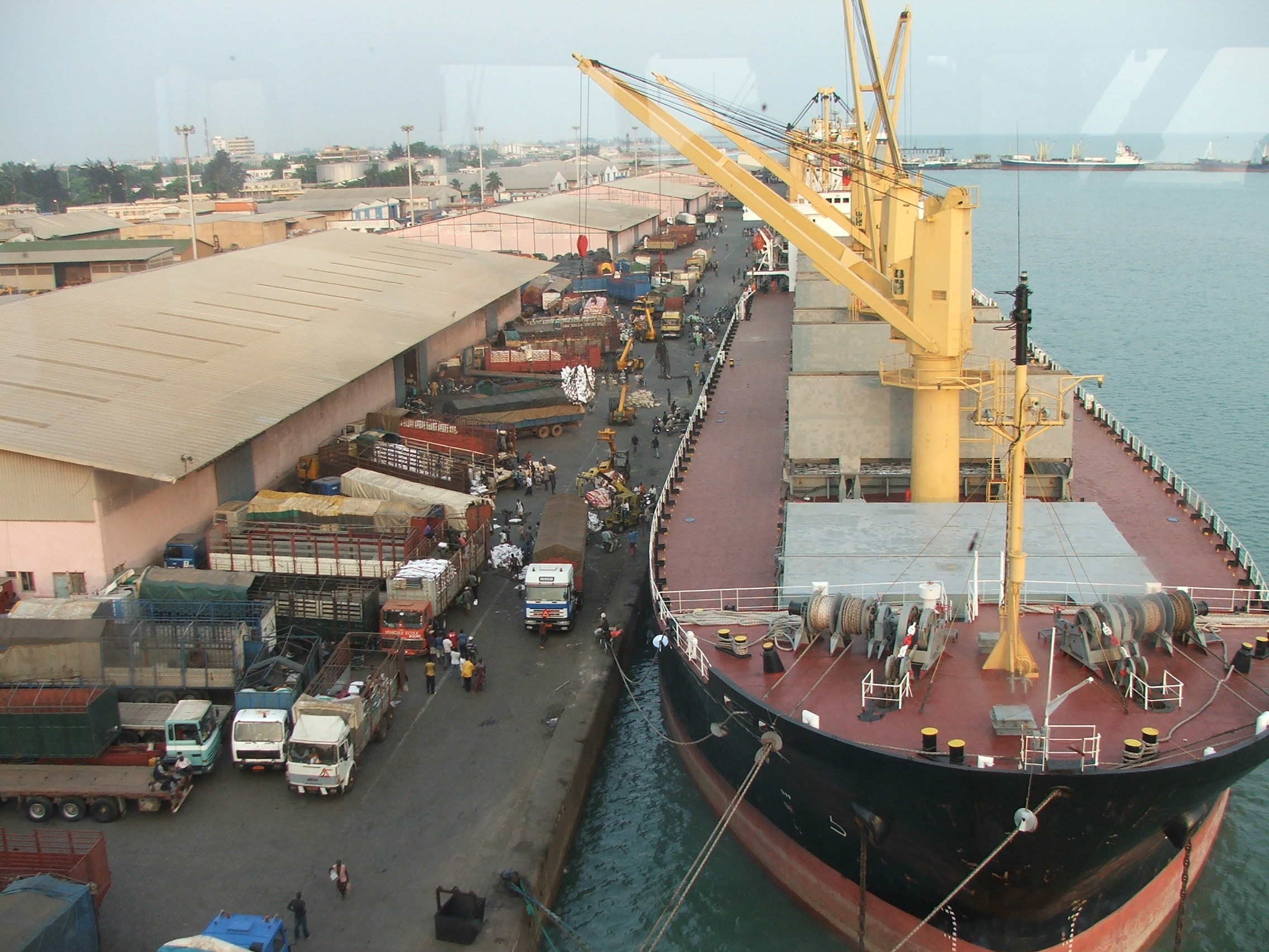 General Cargo Handling in Port of Cotonou